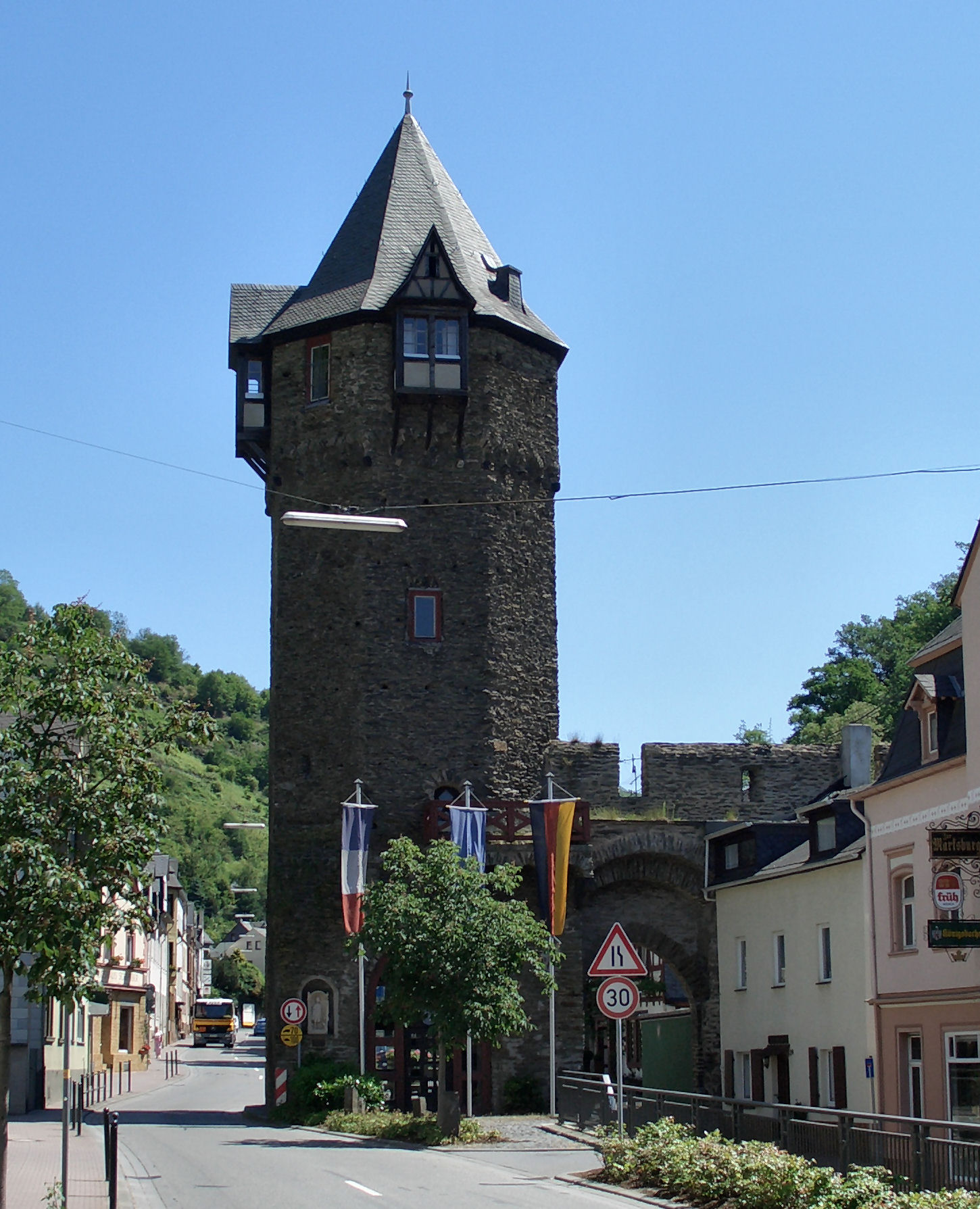 Obertor in Braubach